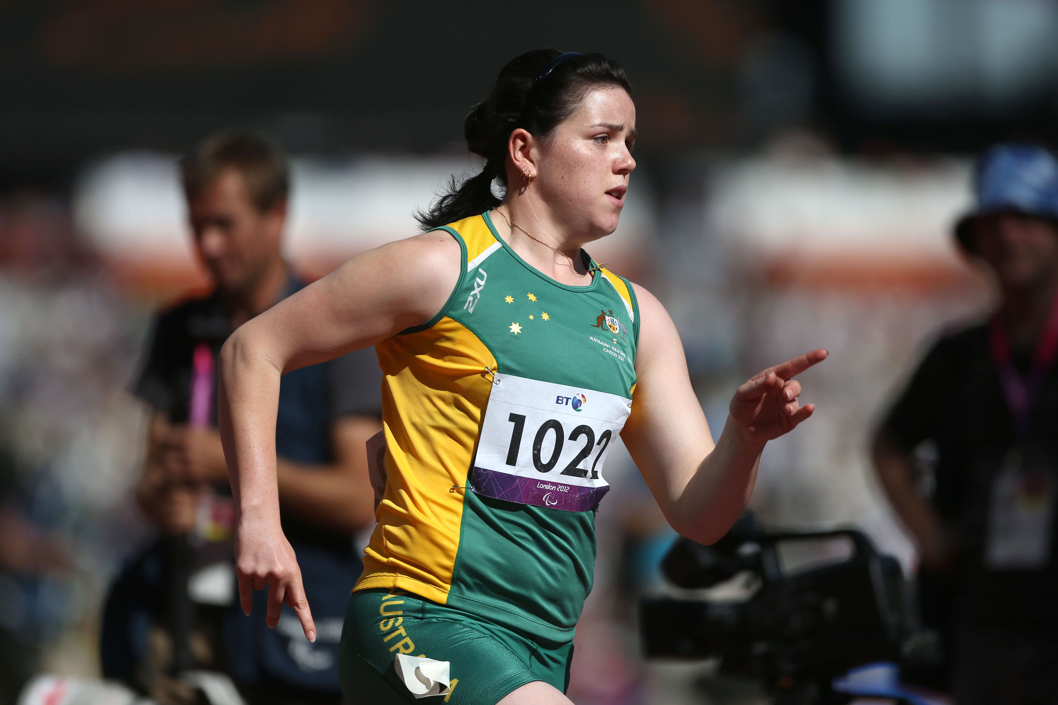 Photograph of Australian Paralympic team member Jodi Elkington at the 2012 Summer Paralympic Games in London